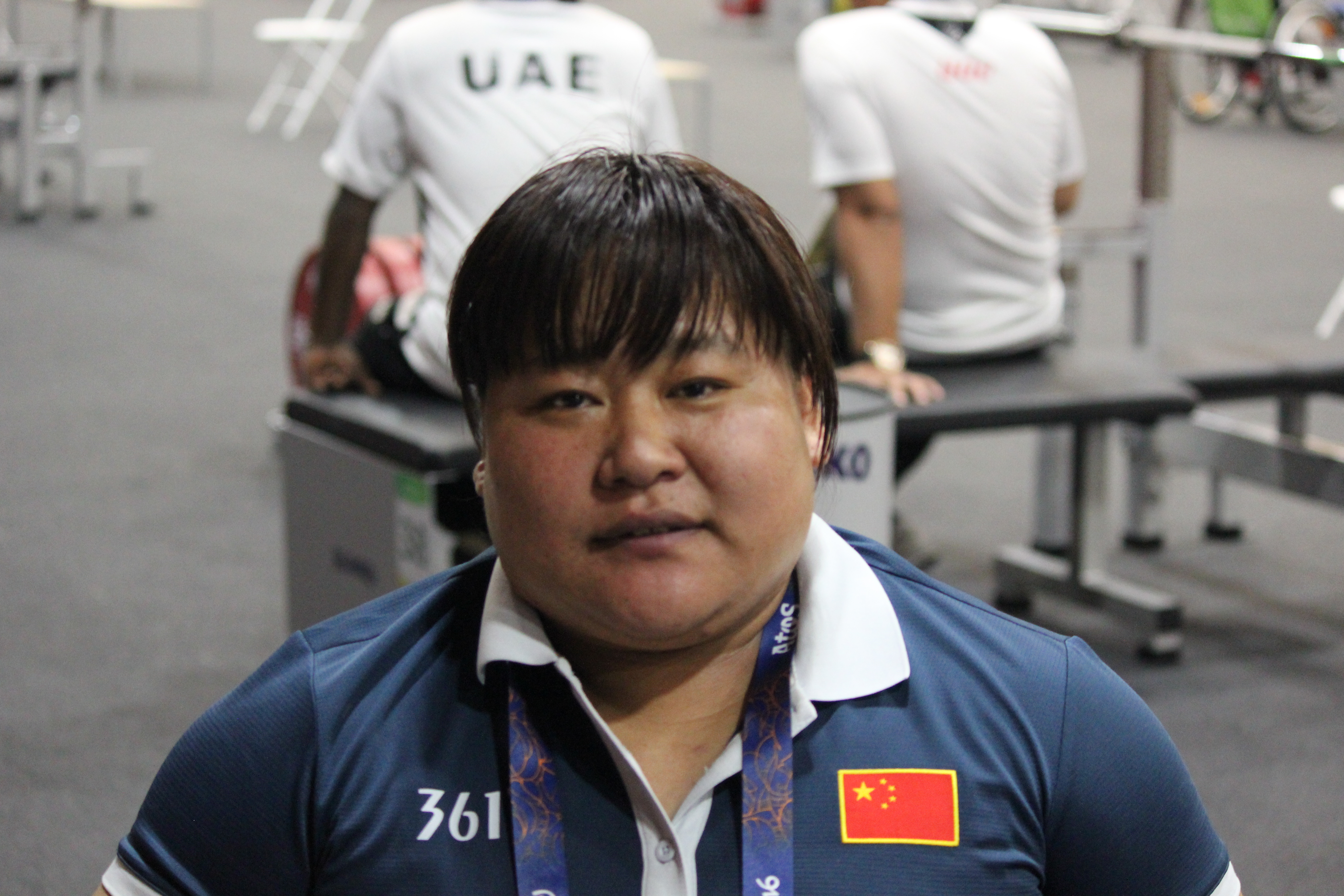 Lili Xu of China at the 2016 Summer Paralympics. She took gold at the IPC World Championships earlier. (128kg in the women’s up to 79kg competition to beat Taiwan's reigning world and European Open champion Tzu-Hui Lin) Wikidata record